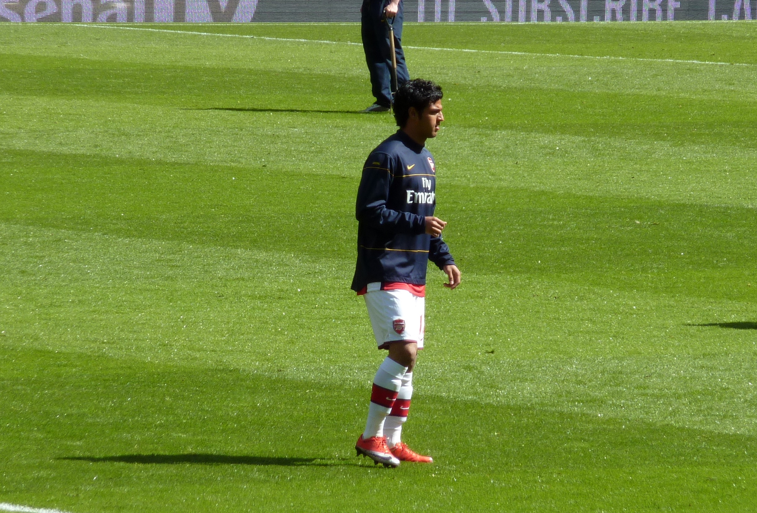 Carlos Vela at Arsenal